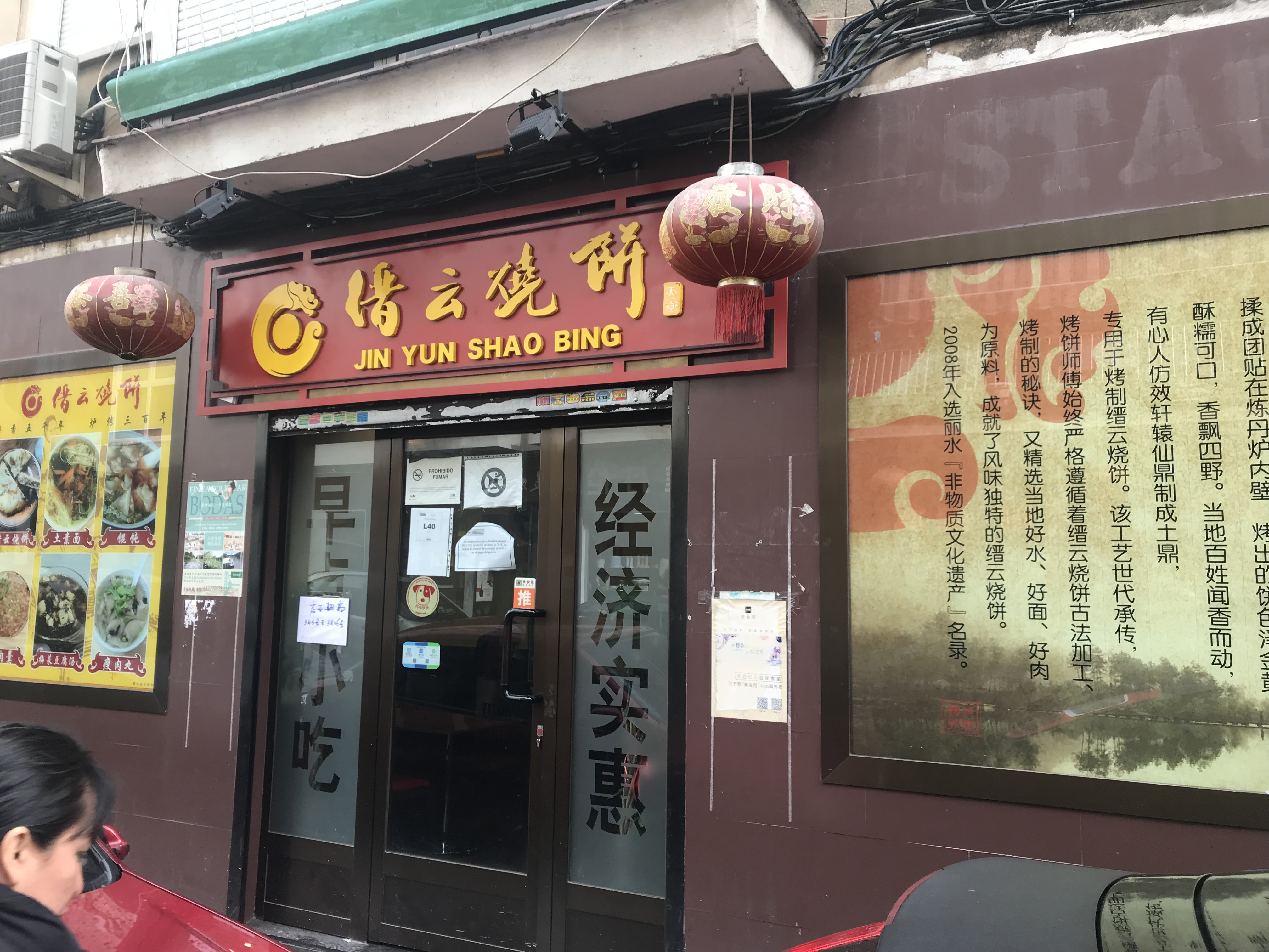 Restaurants with Jin Yun Shao Bing logo are everywhere in Zhejiang. Recently, this logo had been registered in EU...What a shock to see a restaurant with Chinese-only description and advertisement located in Usera, the (infamous) China (or Qingtian?) Town of Madrid, Spain.